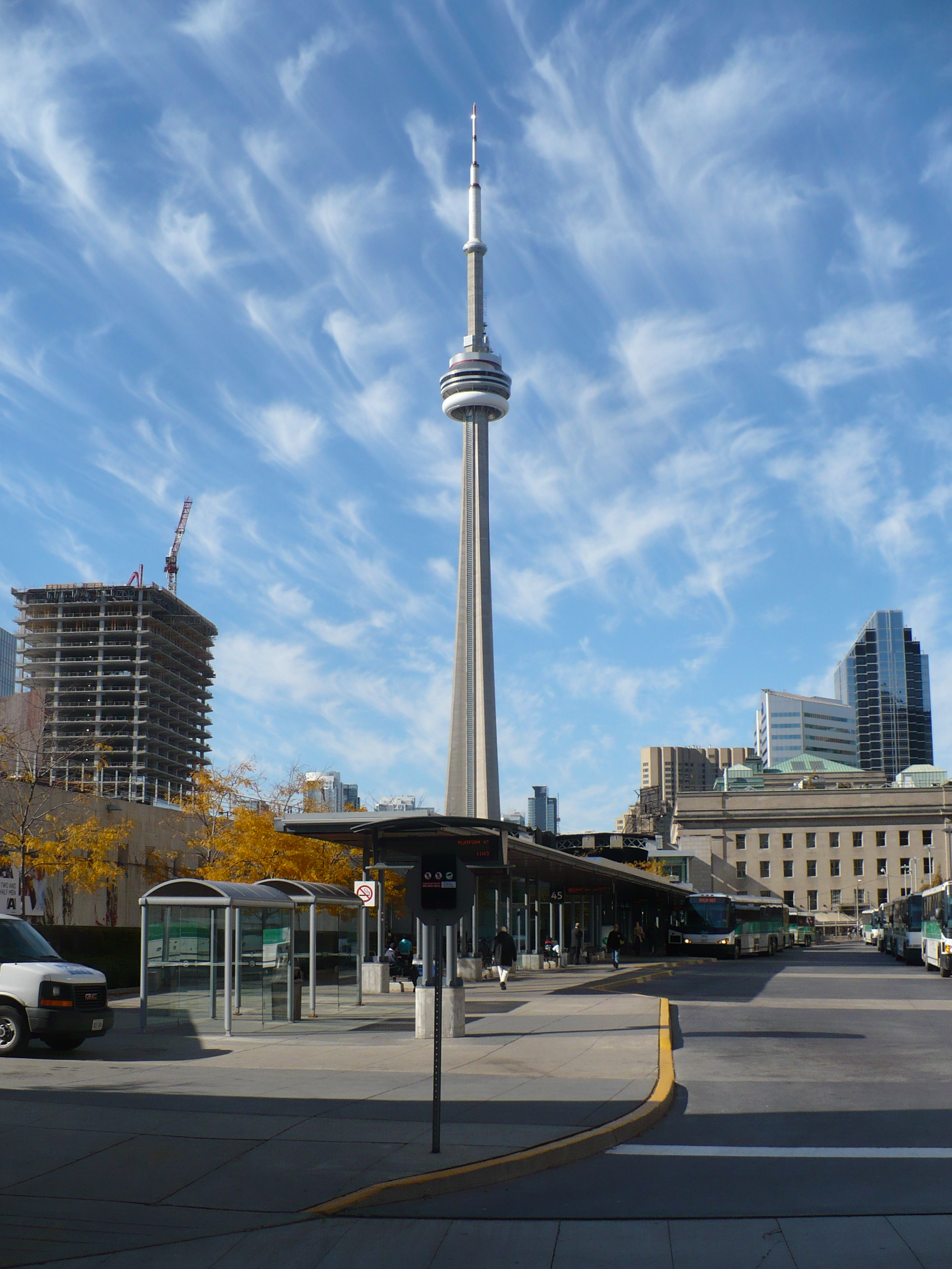 Union Station Bus Terminal with the CN Tower twinkling like a magic wand in the background